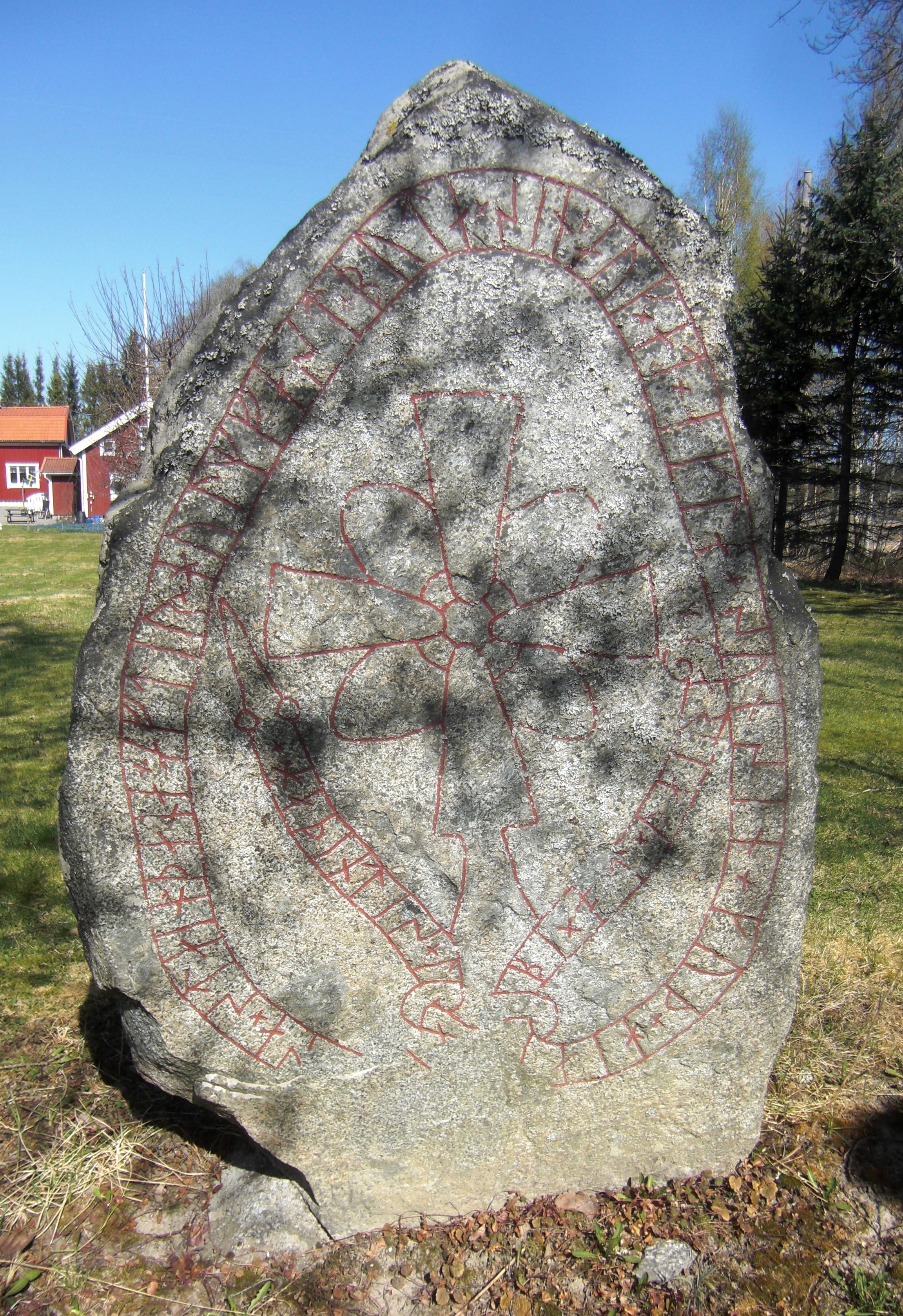 Runestone U 1151 from Brunnby.